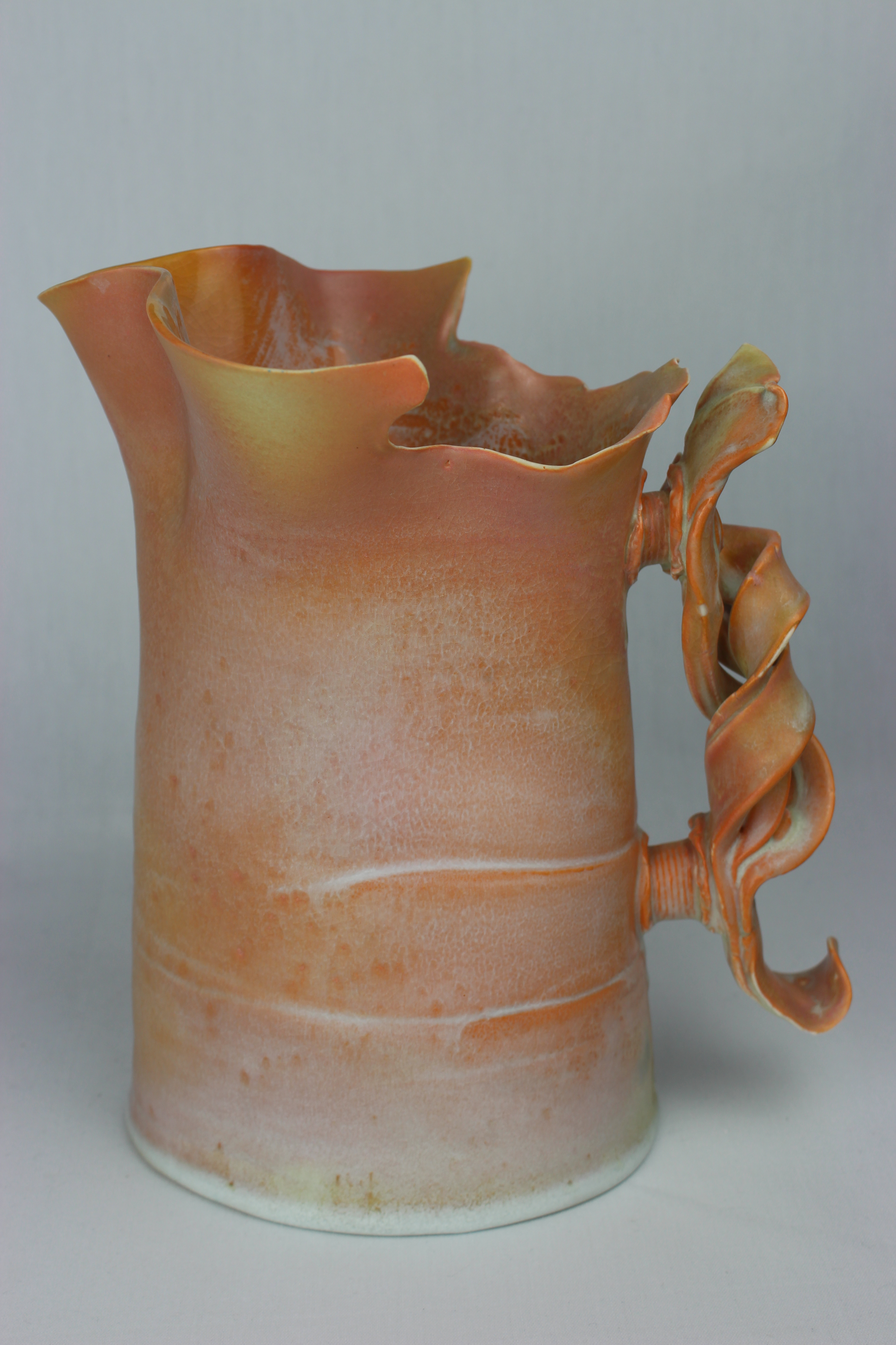 Ovalled jug with elaborate twisted handle, rose white porcelain. From the W.A. Ismay Studio Ceramics Collection at York Art Gallery